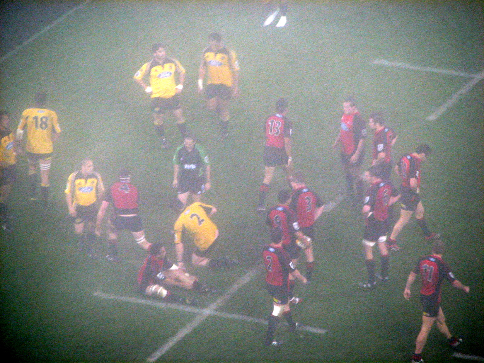 (My own work,taken at Jade Stadium, Christchurch, New Zealand. Rugby Super 14 Final, Crusaders vs Hurricanes, 27th May 2006. Crusaders won 19-12. Photo taken by Maree Reveley (aka Somerslea))